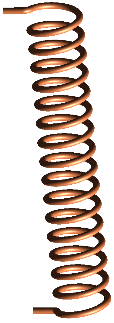 A three-dimensional rendering of a solenoid.